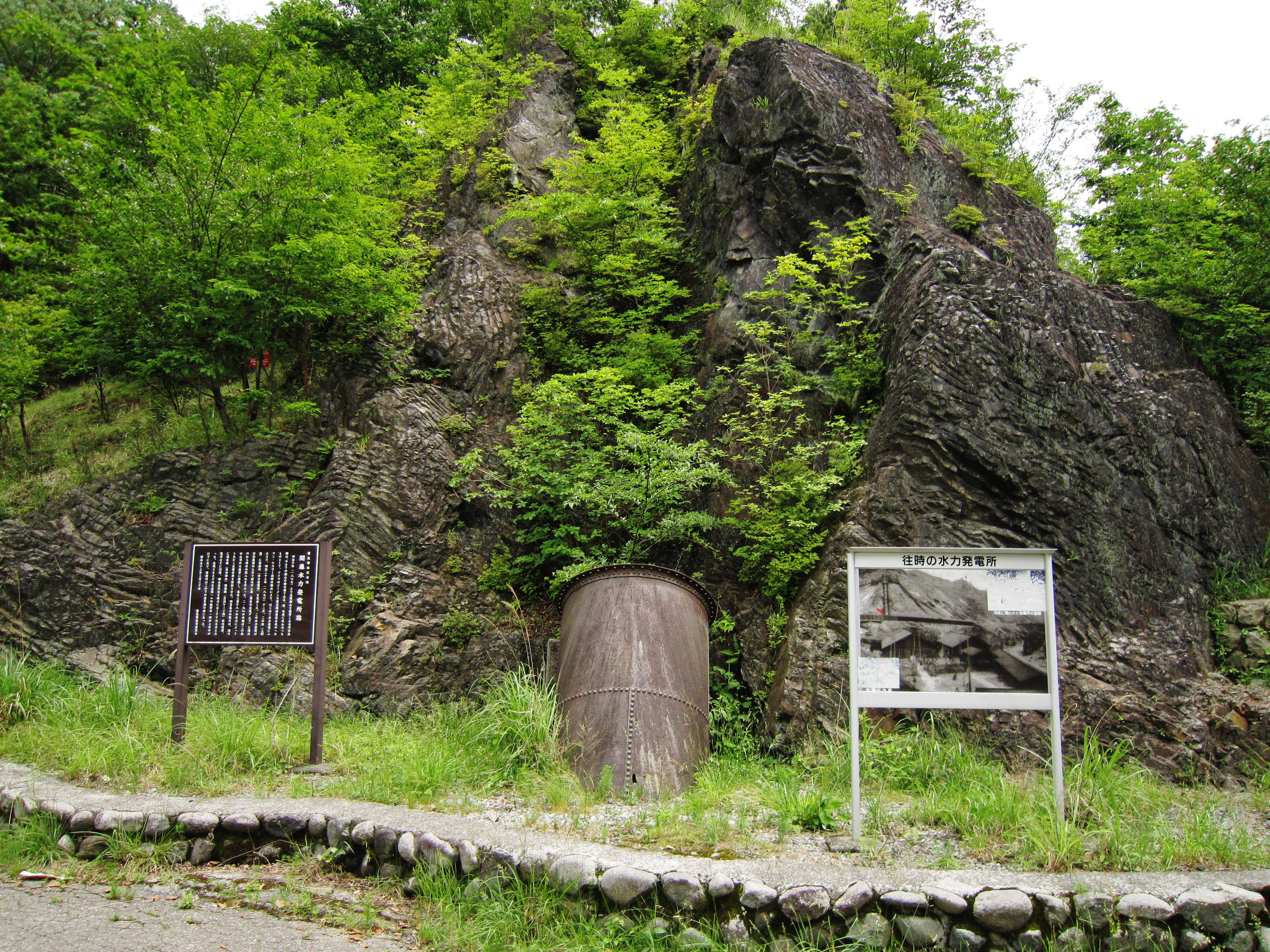 Matō Power Station ruins.